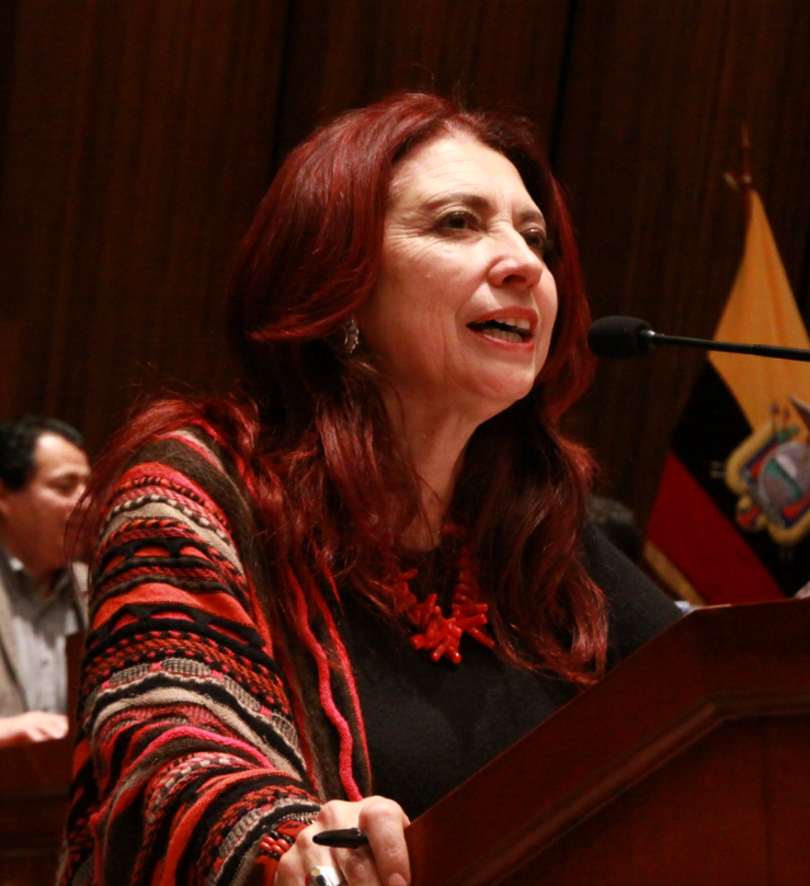 María Augusta Calle. Cropped version of File:Asambleísta María Augusta Calle, entrega oficialmente la propuesta para tipificar la Figura del Linchamiento Mediático en el Código Orgánico Integral Penal (9462811794).jpg